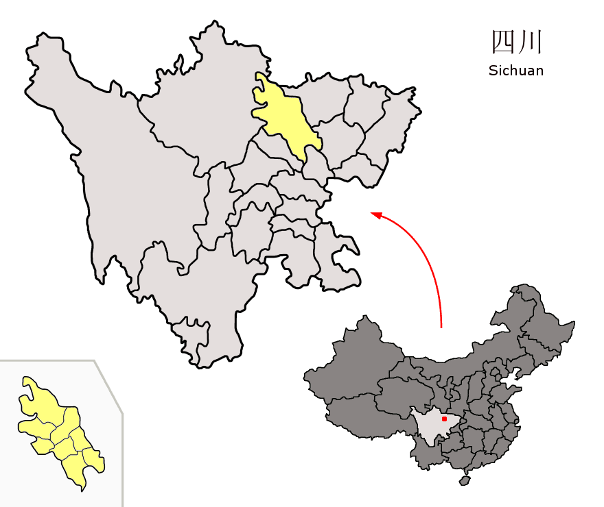 Location of Mianyang Prefecture (yellow) within Sichuan province of China Map drawn in october 2007 using various sources, mainly : Sichuan province administrative regions GIS data: 1:1M, County level, 1990 Sichuan Counties map from